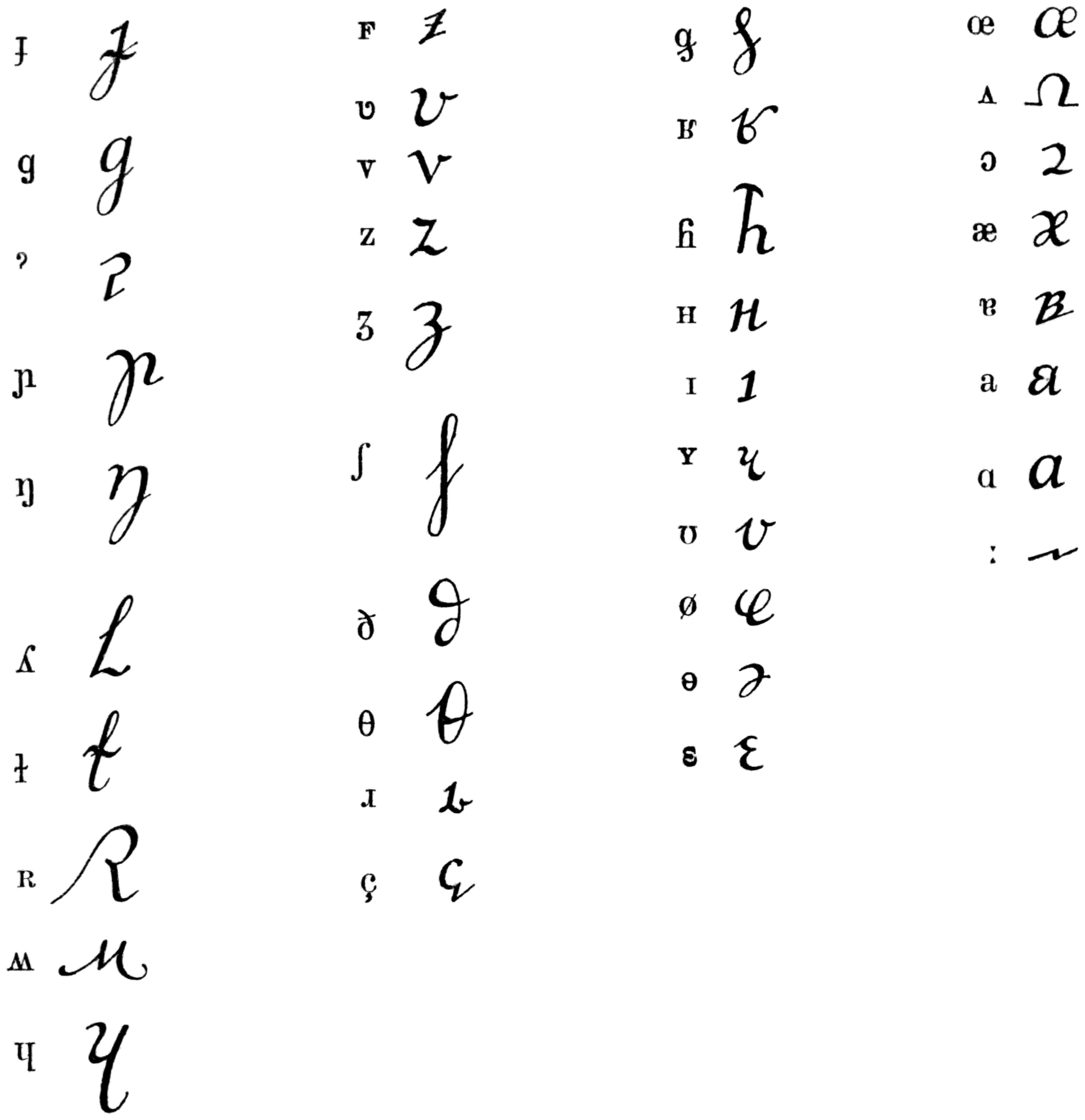 Handwritten forms of IPA letters (1912)